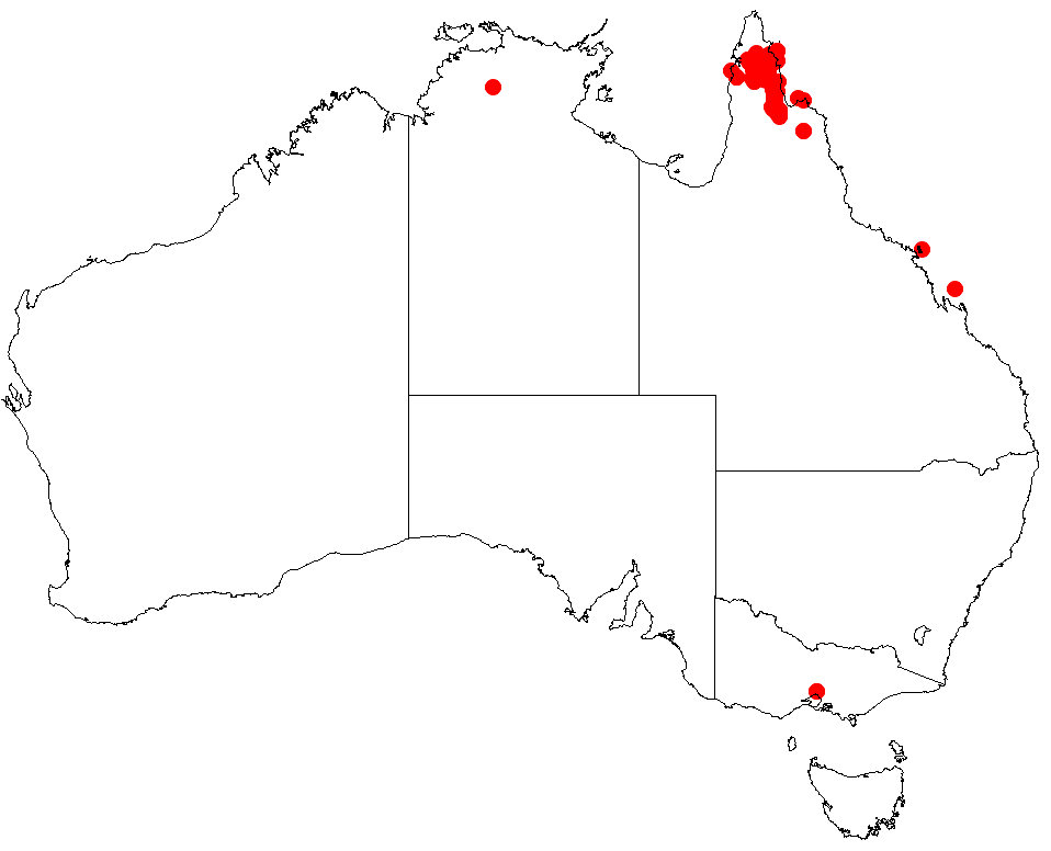 Acacia midgleyi Occurrence data from Australasia Virtual Herbarium downloaded from on 8 December 2018